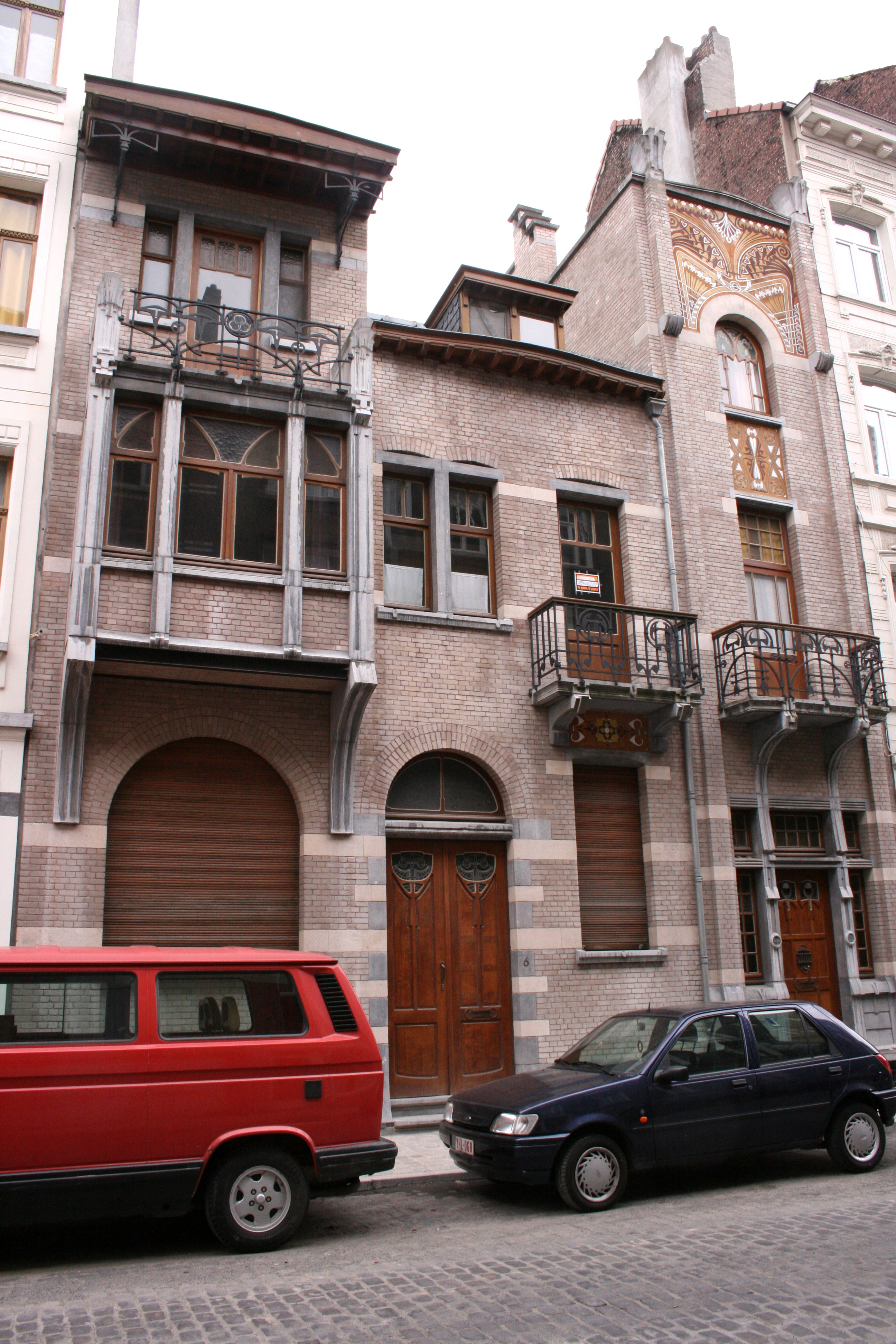 Maison Cortvriendt, 6-8 rue de Nancy, Brussels (Belgium). Architect Léon sneyers. Sgraffitoes by Adolphe Crespin (1900)